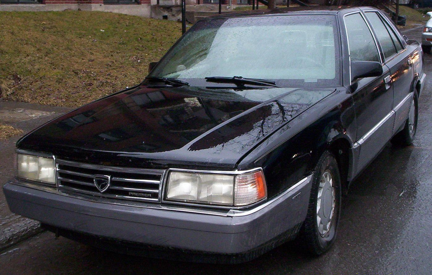 1988-1993 Eagle Premier photographed in Montreal, Quebec, Canada.